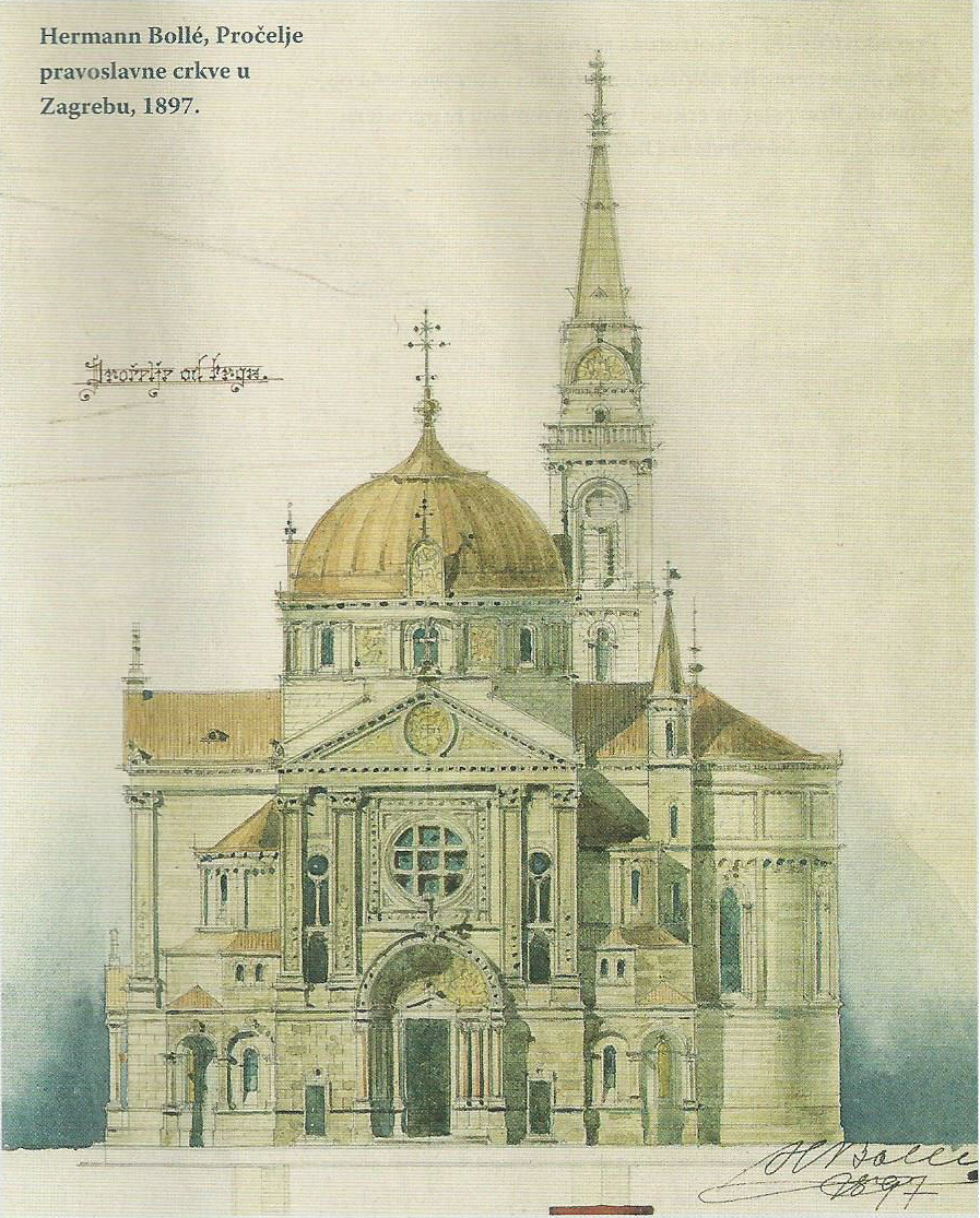 Hermann Bollé project for Serbian Orthodox Cathedral in Zagreb from 1897.